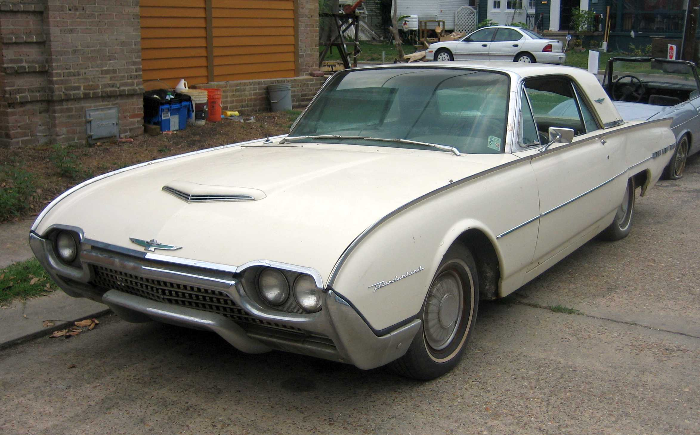 Information 1960s Ford Thunderbird seen in Broadmoor neighborhood, New Orleans. Third generation model (1961–1963). Photo by Infrogmation